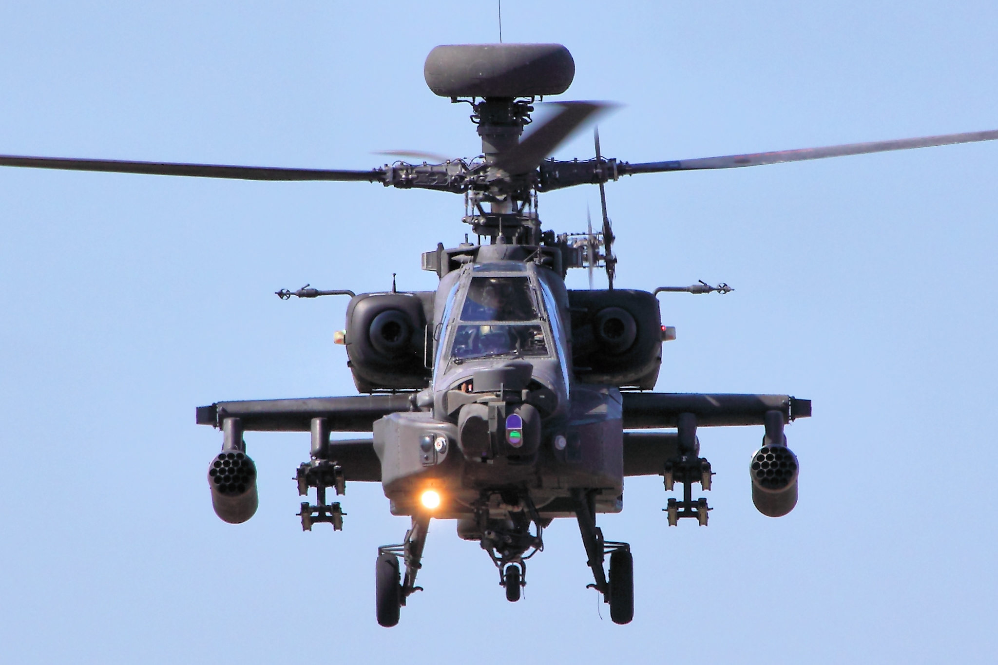 AH64D Apache - RIAT 2013